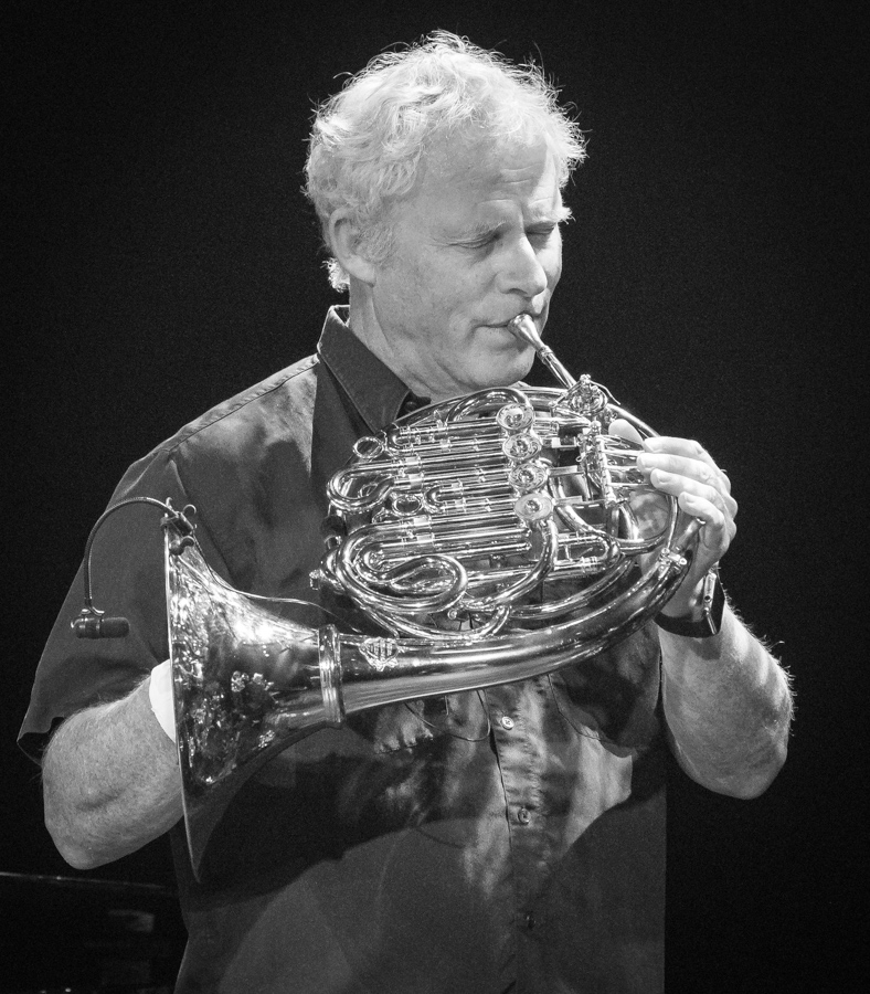 Runar Tafjord with James Morrisson and Brazz Brothers at Chat Noir. The concert was part of Oslo Jazzfestival and took place on 19. August 2017 in Oslo. Lineup: James Morrisson (trumpet), Helge Førde (trombone), Jan Magne Førde (trumpet), Runar Tafjord (horn), Stein Erik Tafjord (tuba), Kenneth Ekornes (drums) and Kåre Nymark jr (trumpet).